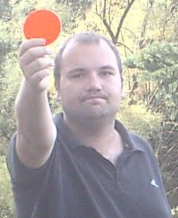 The Red Hockey Card - An expulsion for the player who must leave the field permanently. His team will play for the rest of the game with one man less.